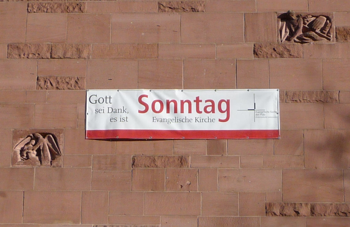 church in Ludwigshafen